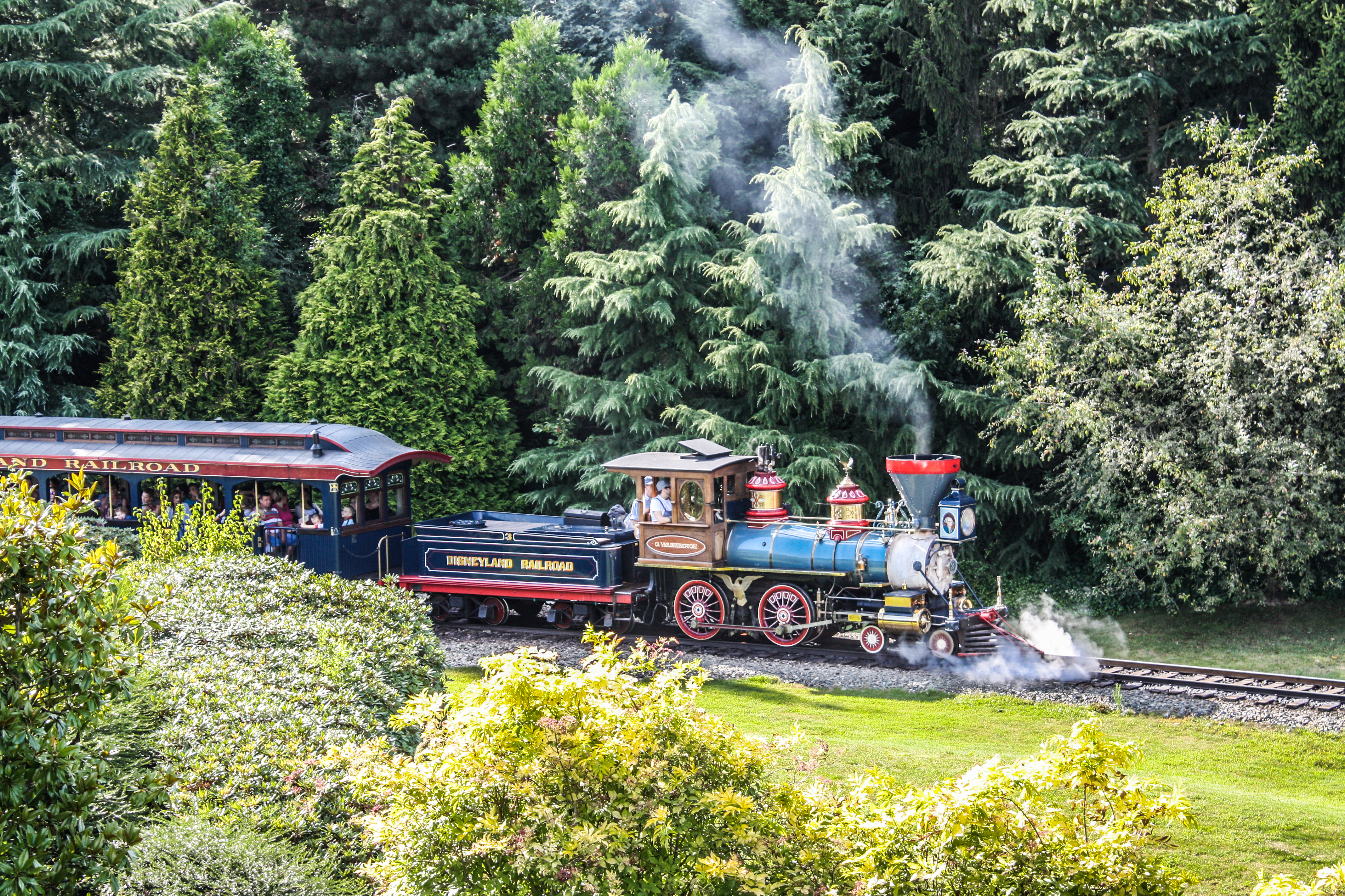 Disneyland Railroad locomotive G. Washington at Disneyland Paris.